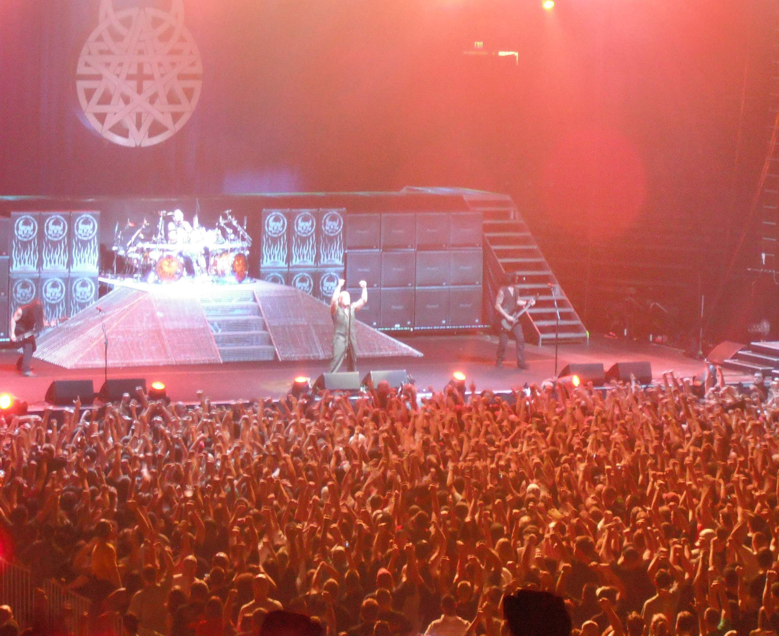 Photos By Ted Van Pelt, Reading Soveriegn center April 25th 2009. Creative Commons License.